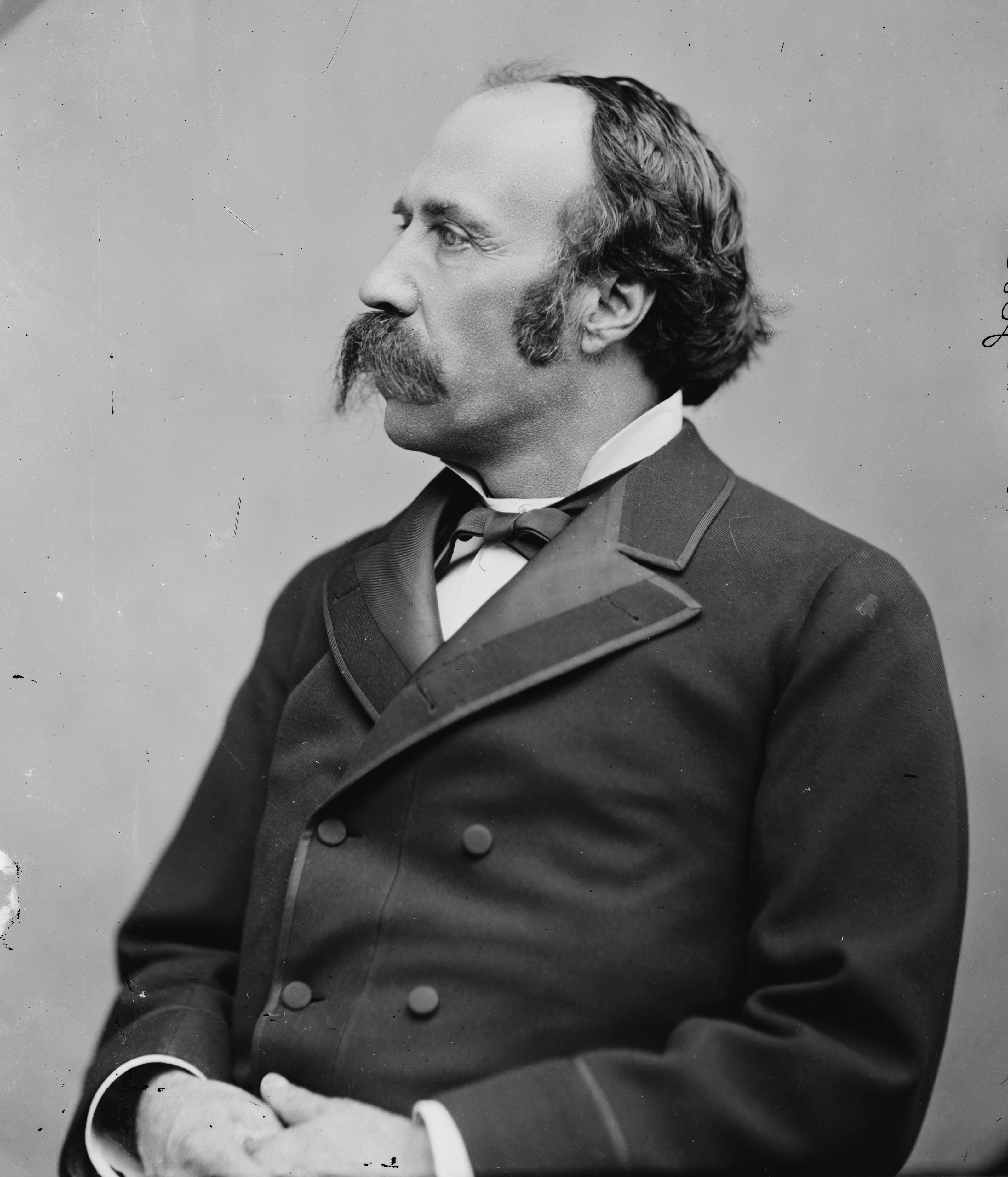 Horace Austin Warner Tabor. Library of Congress description: "Tabor, Hon. of Colorado (Senator)".